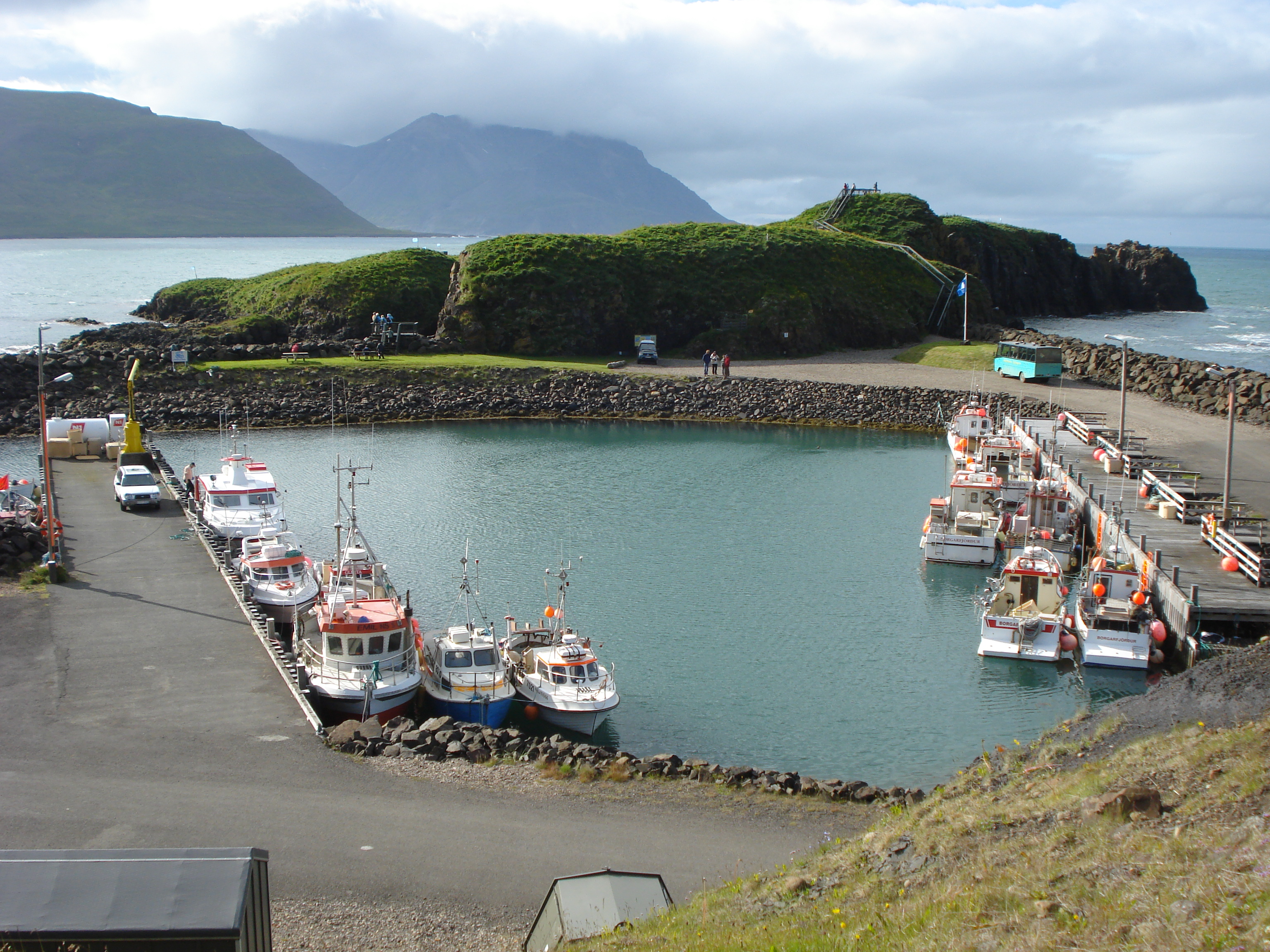 The minor harbor of Bakkagerði with a birds breeding rock.